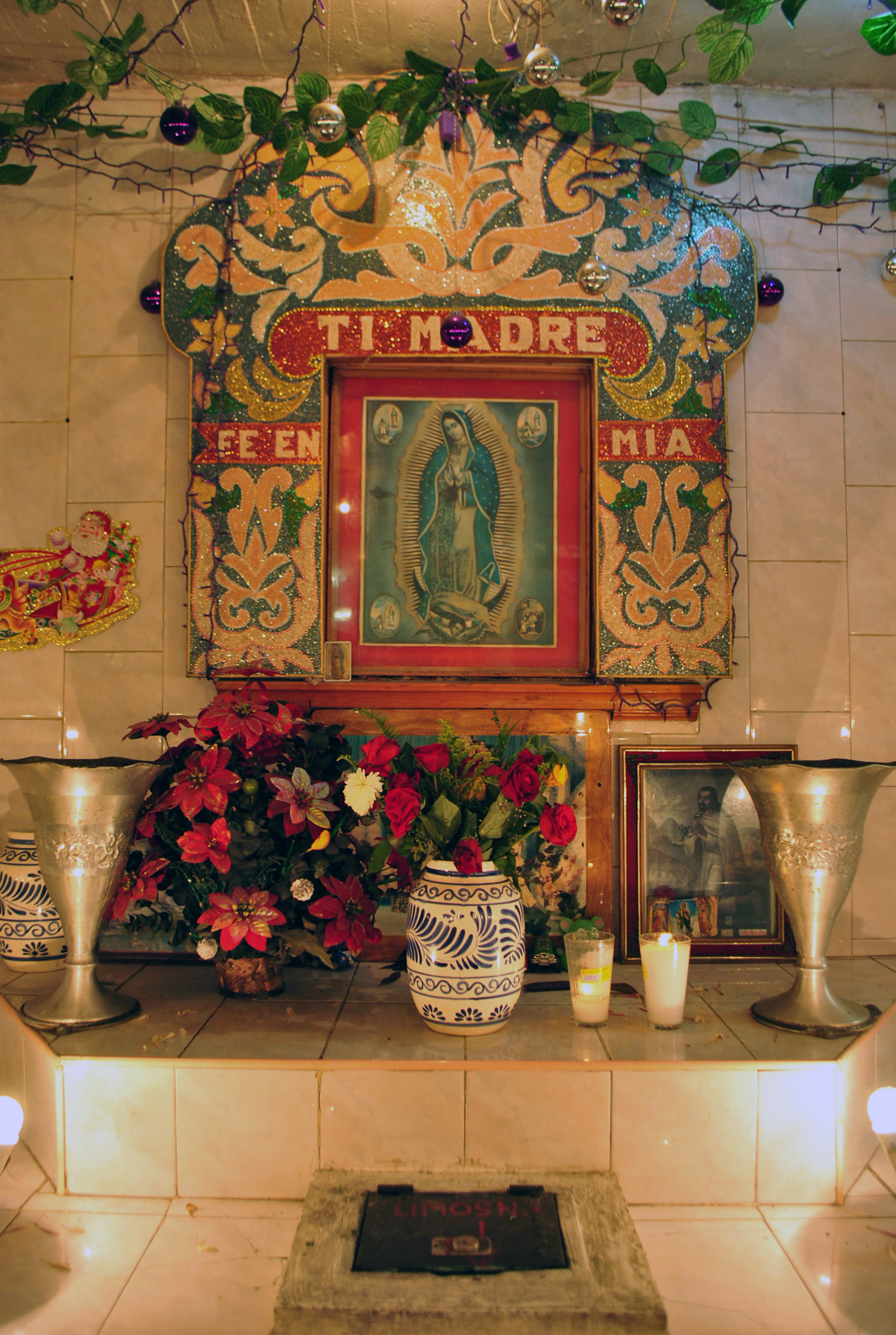 Our Lady of Guadalupe shrine, Mercado de Xochimilco, Mexico City.